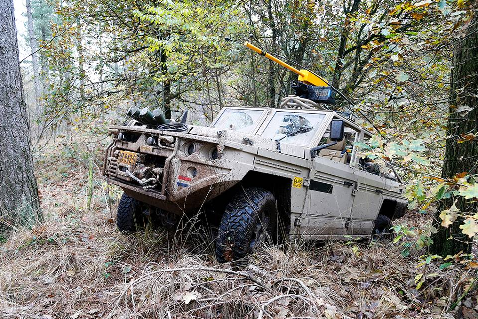 VECTOR